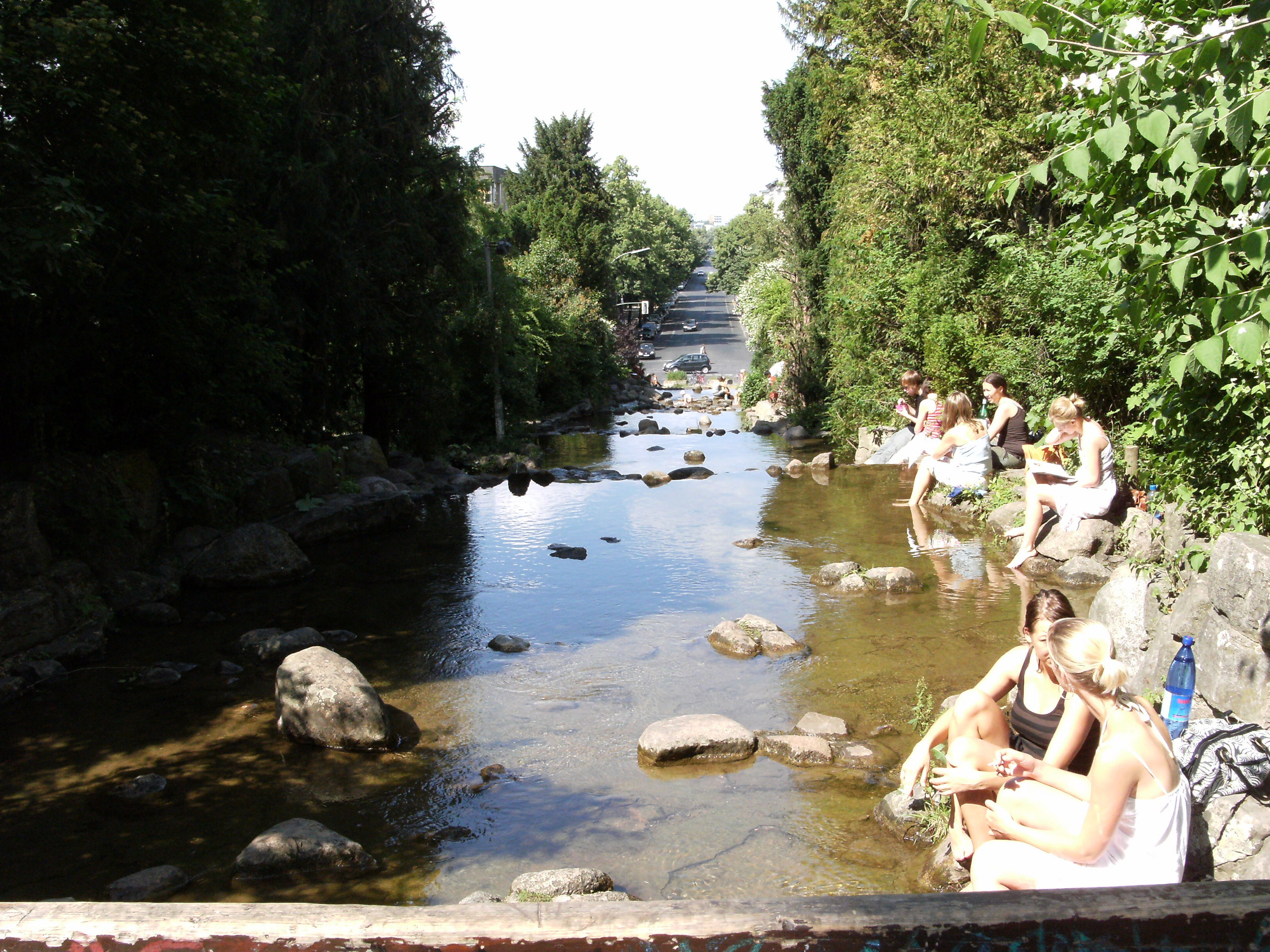 Berlin in june 2008.